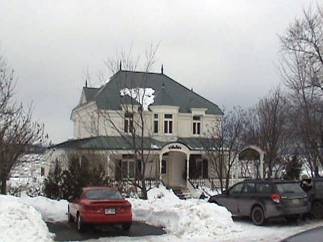 Maison de Viateur Bernier le maire